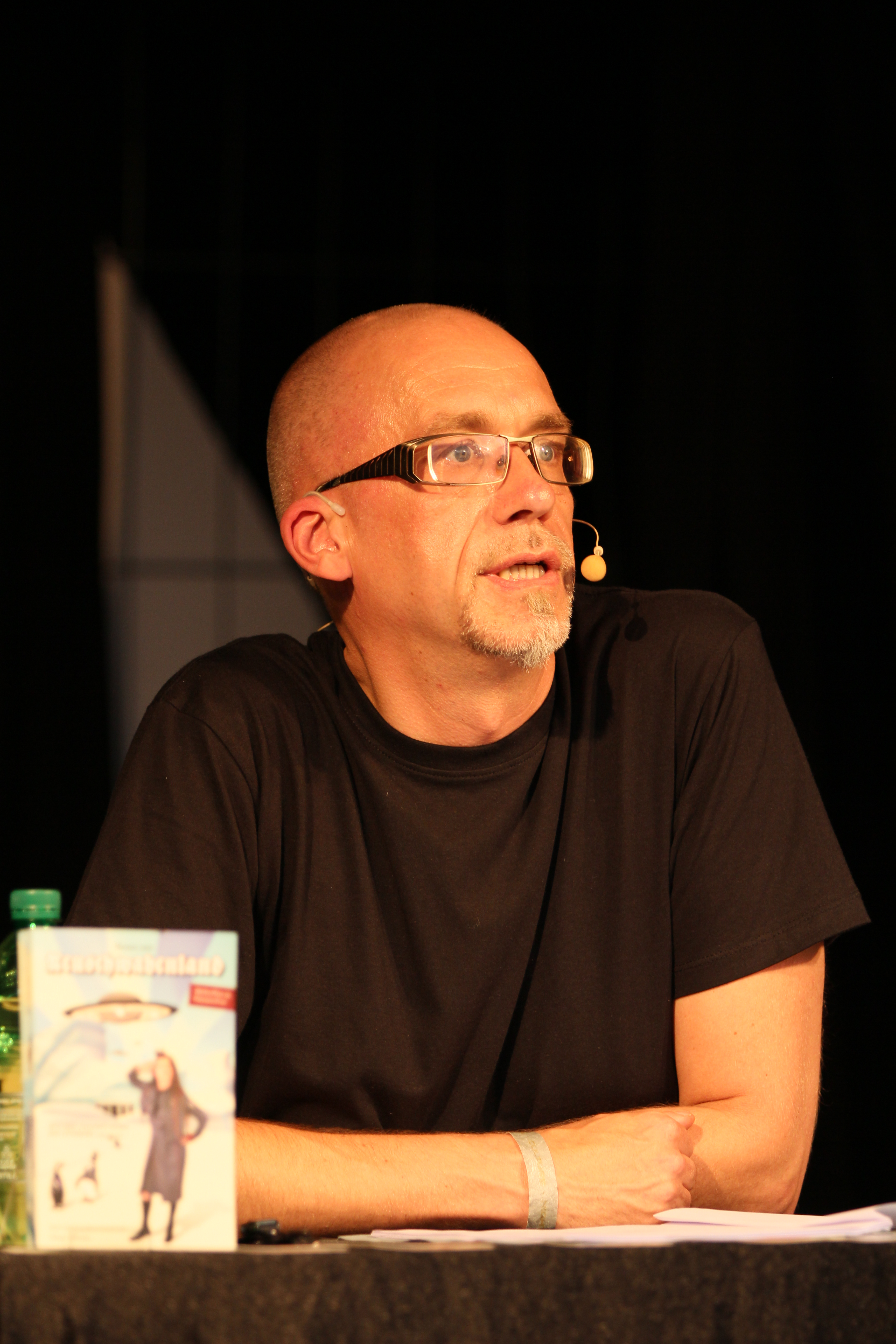 The German author Alex Jahnke at the Nocturnal Culture Night 9 2014 in Deutzen/Germany